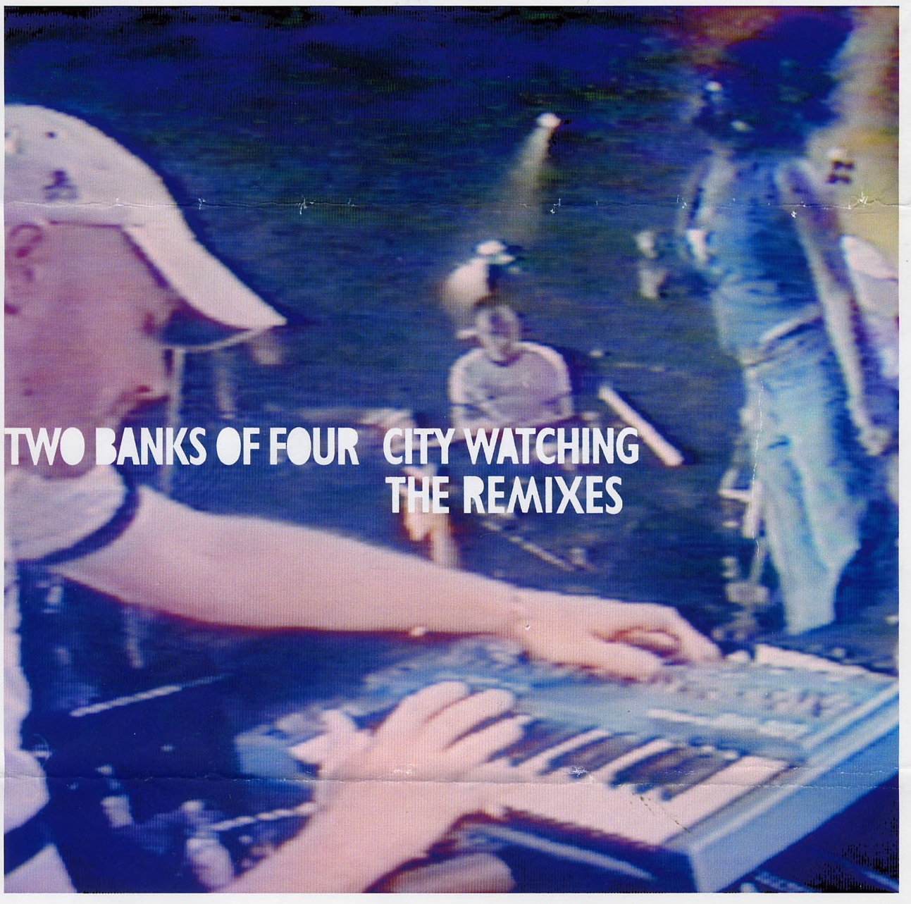 Two Banks of Four at the Montreux festival 2001